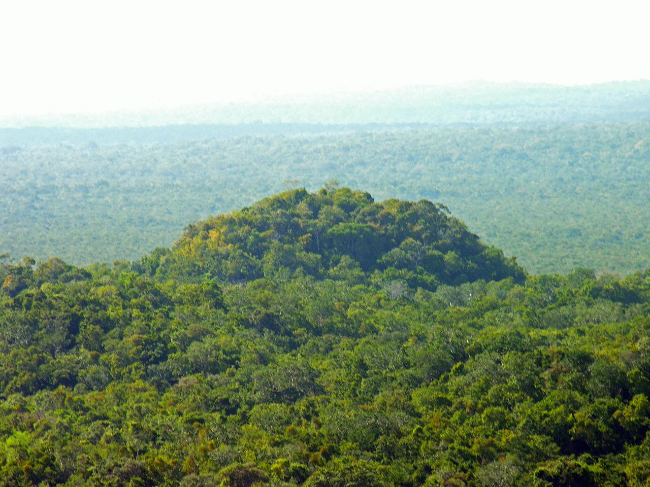 This is a view of the El Tigre pyramid, near where we landed